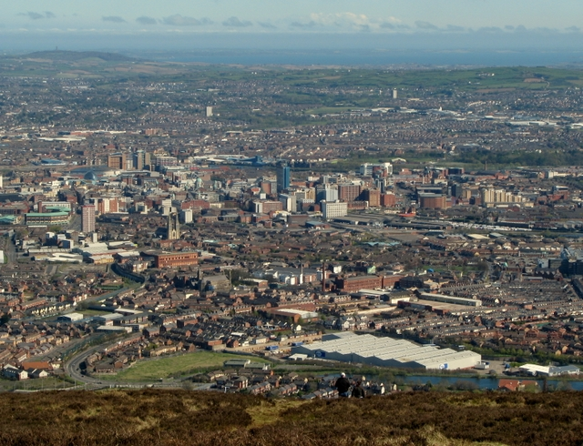 Belfast from Black Mountain The view east from Black Mountain offers an excellent view over Belfast. Beyond part of the mountain and the two people can be seen part of west Belfast. Beyond can be seen the high rise buildings of central Belfast with the terraces of east Belfast behind. Dundonald is behind those and in the far distance you can just see the town of Comber with Scrabo Tower visible in the top left. Strangford Lough and the Ards Peninsula are in the far distance.